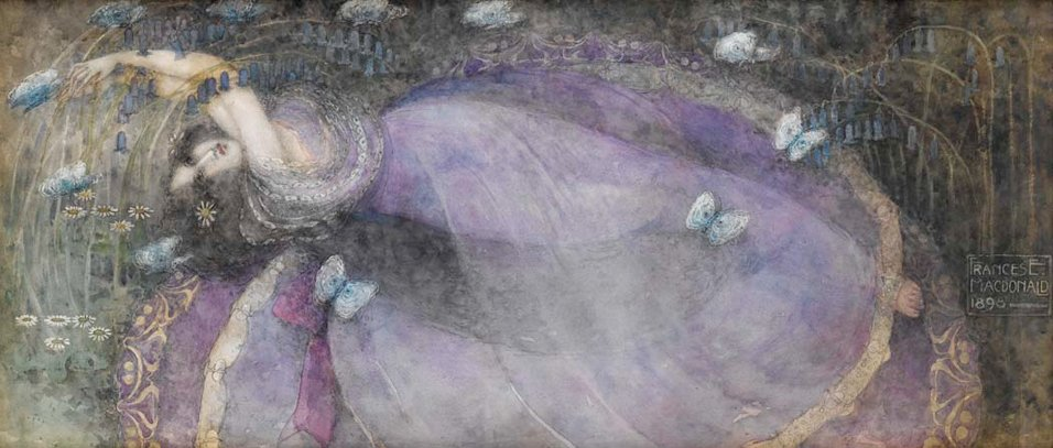 Ophelia, watercolor painting by Frances Macdonald